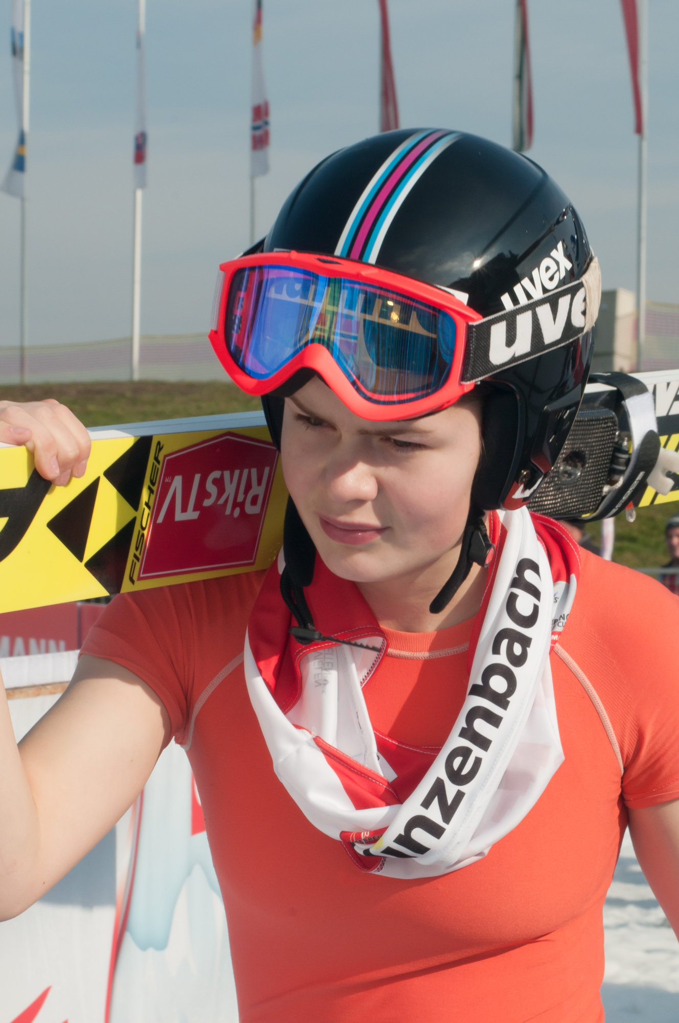 FIS Ski Jumping World Cup Ladies Hinzenbach 2016-02-07